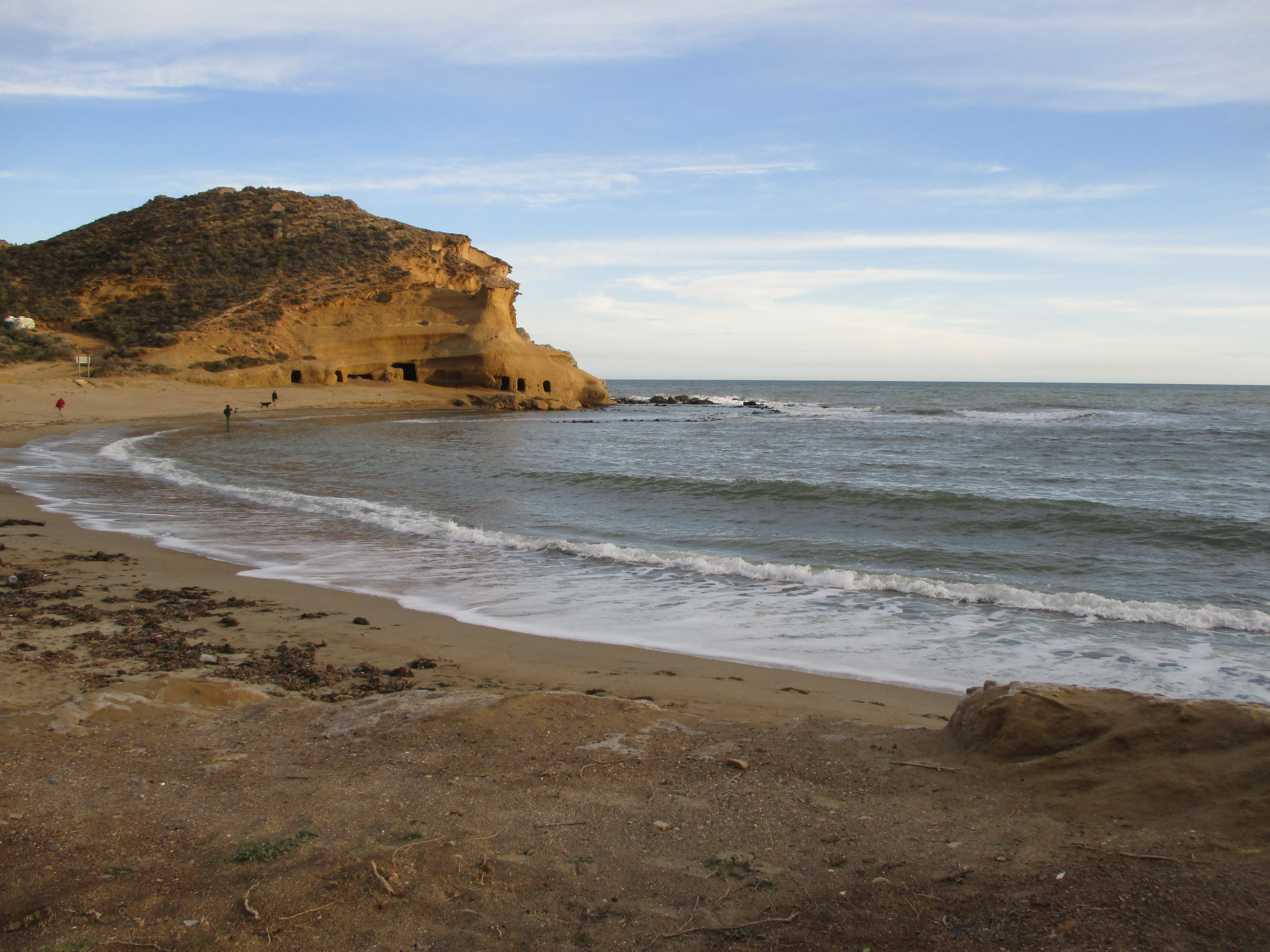 Brown Point, north side of Cocederos Cove. This is a photography of a Special Area of Conservation in Spain with the ID: ES6200010. Natura2000 entry, EEA entry